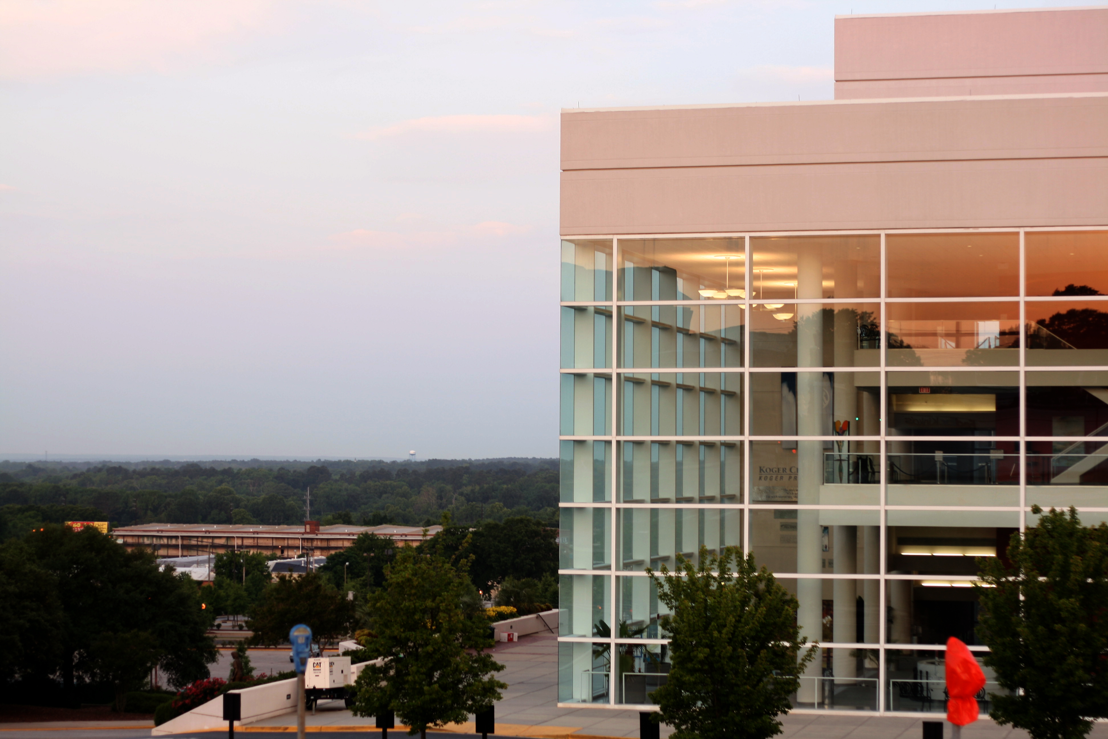 The Koger Center for the Arts at the University of South Carolina, photographed at dawn